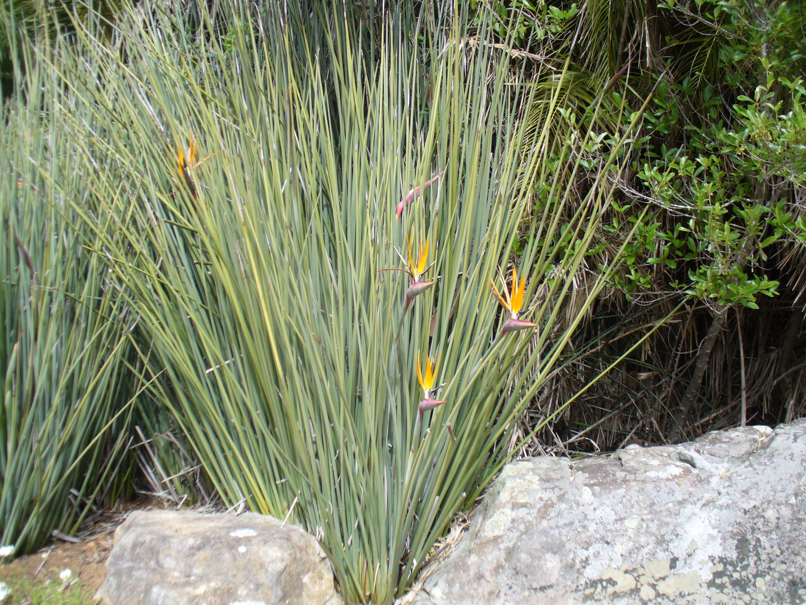 The Rush-leaved Strelitzia in the Kirstenbosch Botanical Gardens, Cape Town. This drought resistant Strelitzia occurs sparsely near Uitenhage, Patensie and just north of Port Elizabeth.